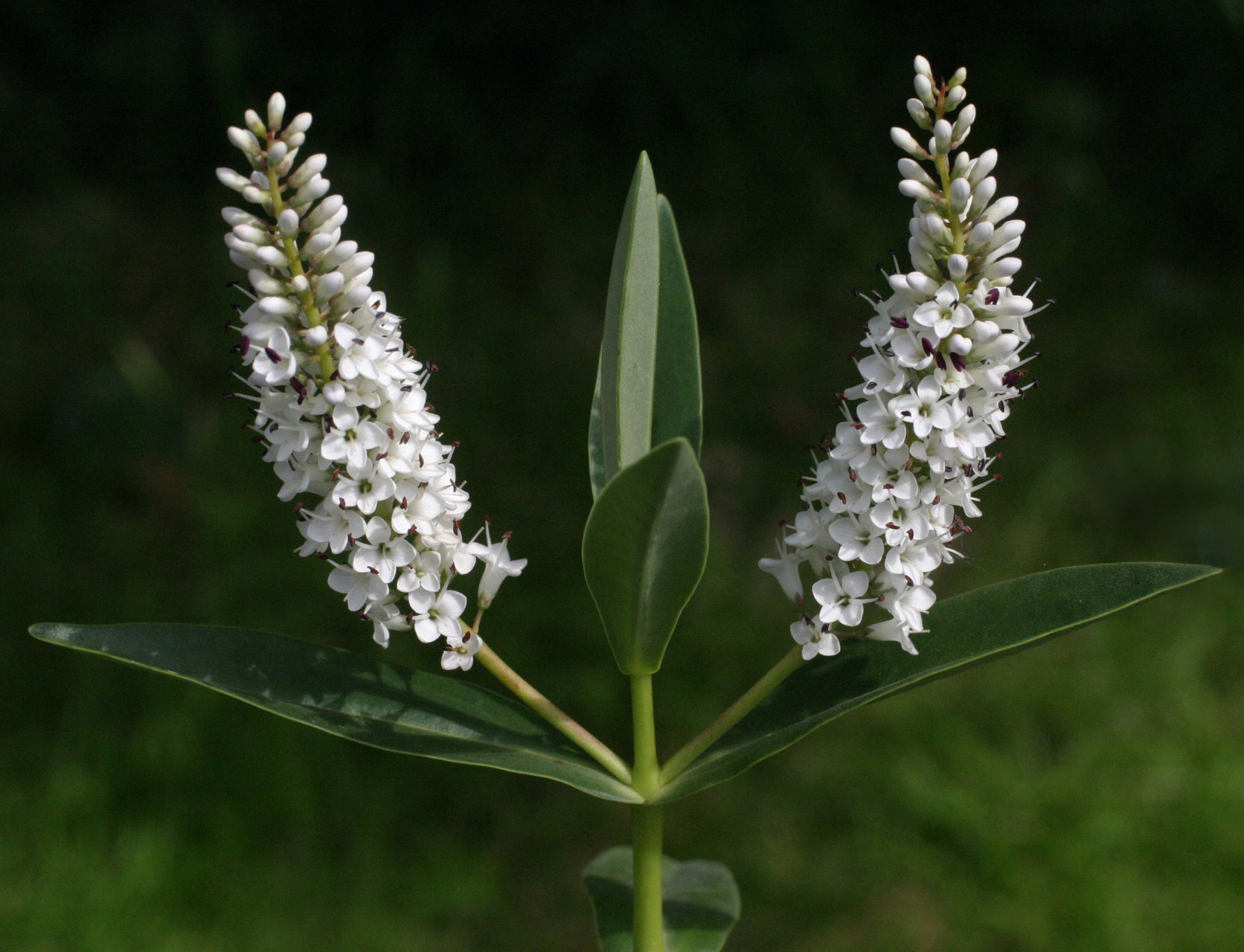 Photograph of Veronica dieffenbachii taken at The Quinta Arboretum, Swettenham, Cheshire, UK. This hebe is endemic to the Chatham Islands, New Zealand, where it grows on limestone cliffs and rocks. Conservation status